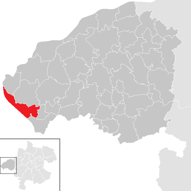 district Braunau am Inn